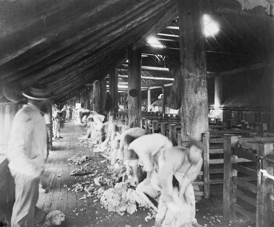 Seven Creeks Station near Longwood. Shearing, albumen silver photograph, 23.5 x 28.5 cm.